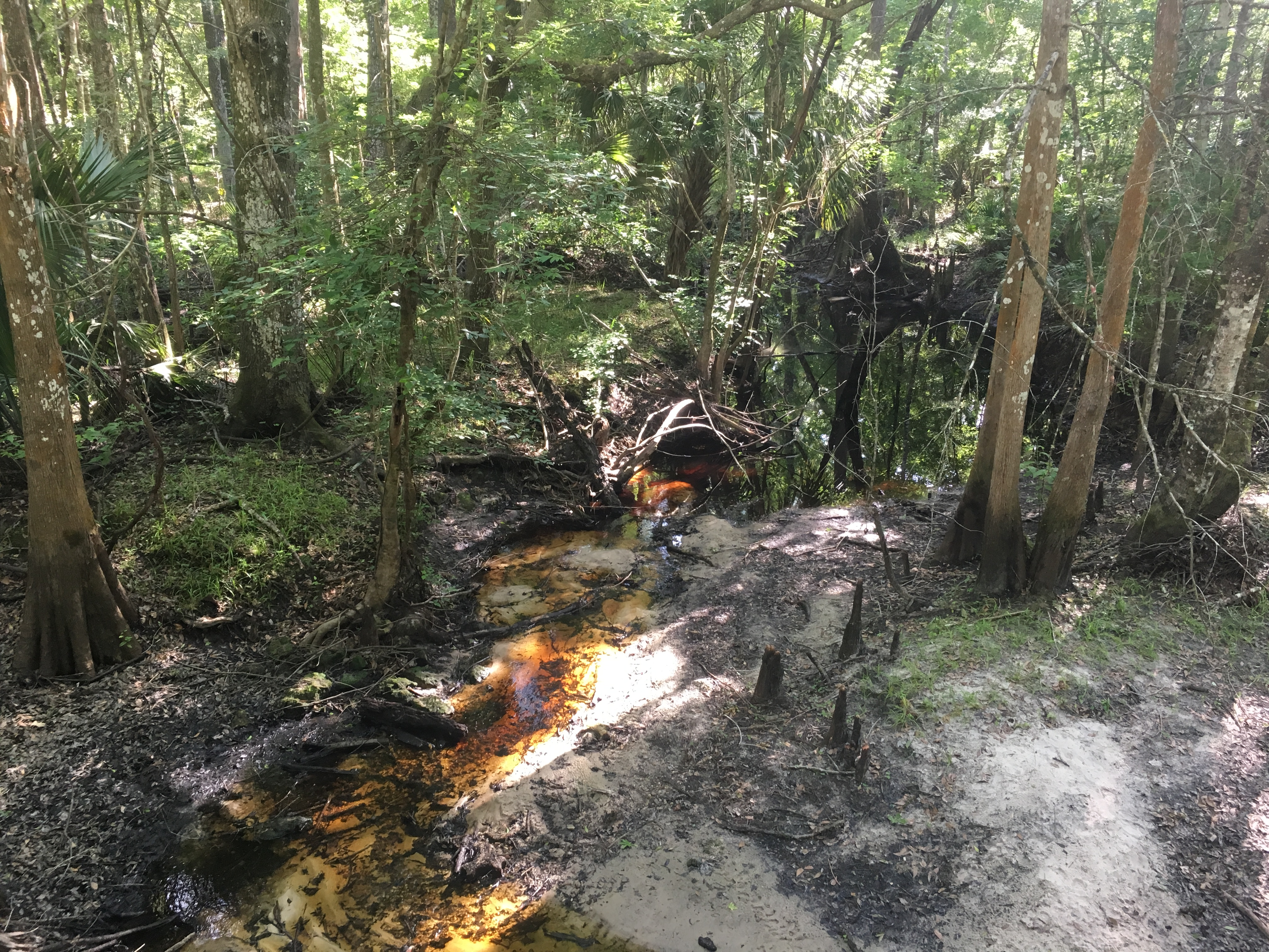 Lochloosa Creek as seen from a bridge on the Gainesville-Hawthorne State Trail